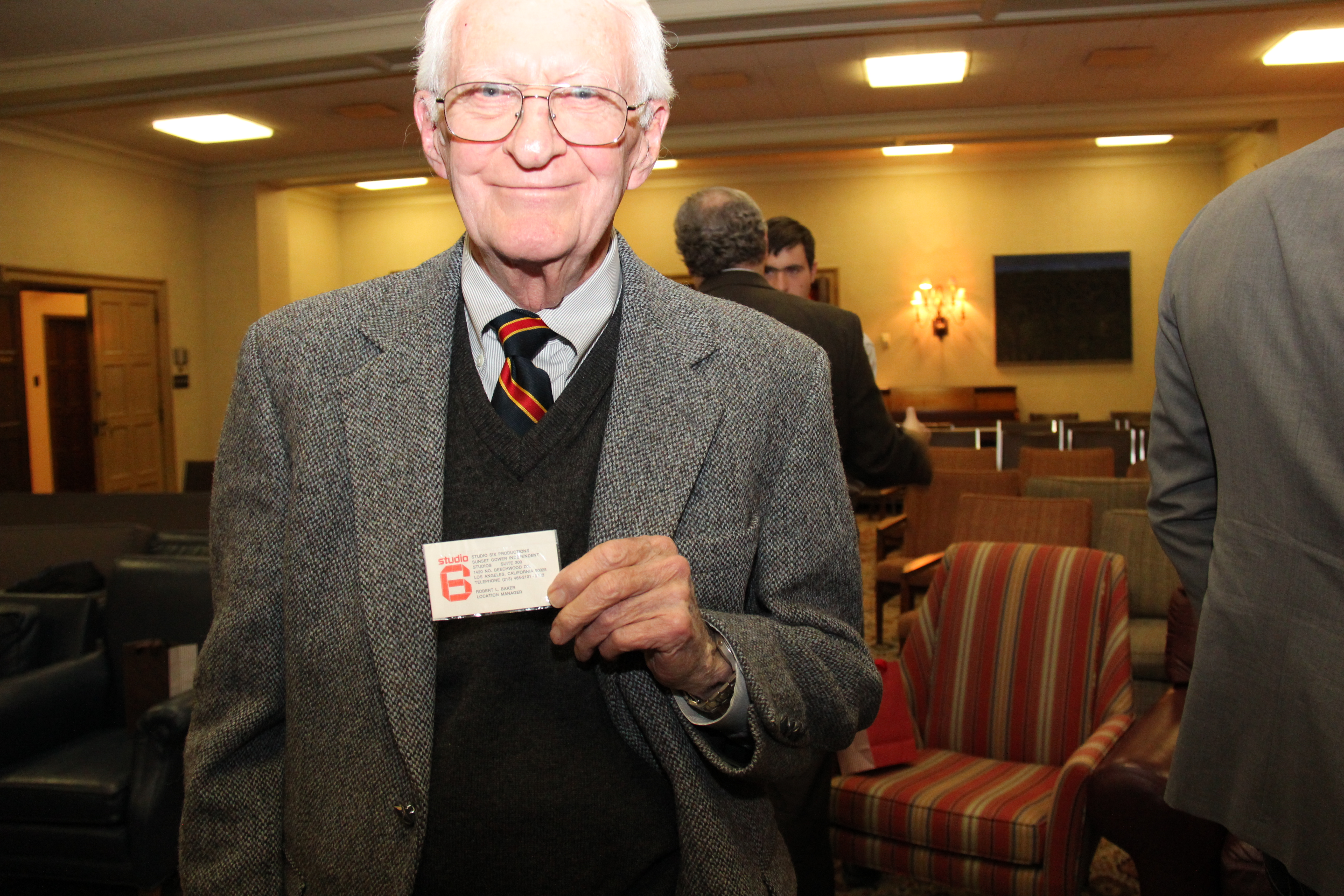 Former U.S. diplomat Robert Anders holds up the business card made for him as part of the ruse to get him and five other Americans out of Tehran during the Iran Hostage Crisis that began in 1979. The hostages ended up posing as a Canadian film crew from the fake company Studio 6 in Iran supposedly doing site visits for a sci-fi thriller called Argo. A movie of the same name, recently released to wide acclaim, has brought the Iran Hostage Crisis, also called the Canadian Caper, back into the consciousness of Canadians, Americans and citizens worldwide.